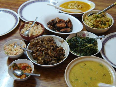 A new version of the image to be used in the portuguese wikipedia.